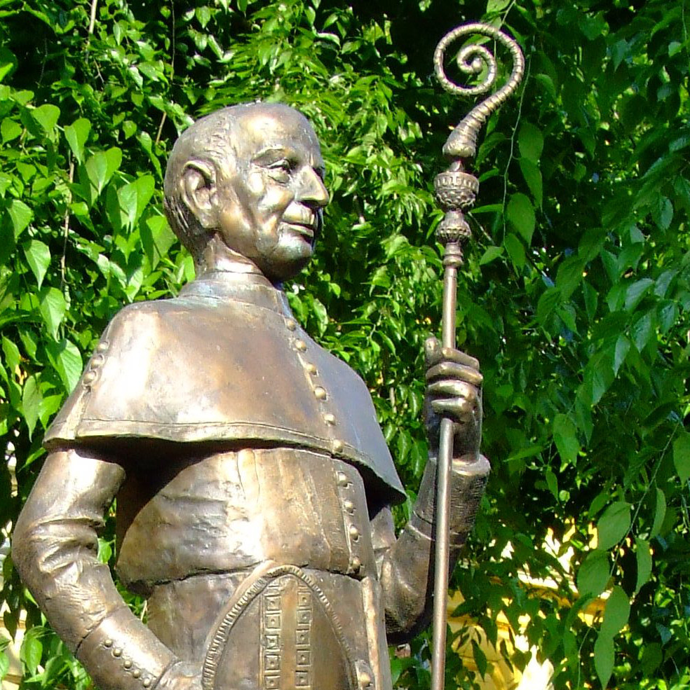 Crop - Joseph Grosz (1887-1961), Archbishop of Kalocsa, statue by KO Pál (2000)